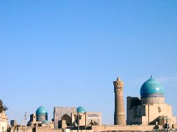 The skyline of the centre of Bukhara, Uzbekistan. By Jonathan Hollow